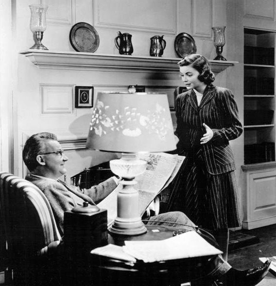 Promotional still for the 1944 short film, Reward Unlimited, dramatizing the need for volunteer military nurses for the U. S. Cadet Nurse Corps during World War II. Subjects of the photograph are Dorothy McGuire and Tom Tully. Snipe attached reads as follows: 8. Dorothy McGuire as Peggy Adams enthusiastically discusses her ambitions to become a student nurse with her father, Tom Tully, in "Reward Unlimited", Vanguard's U. S. Cadet Nurse Corps short subject produced for the U. S. Public Health Service.